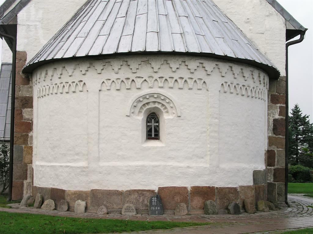 Keitum (Sylt), Slesvic-Holstein (Germany): church, apse, photo 2008